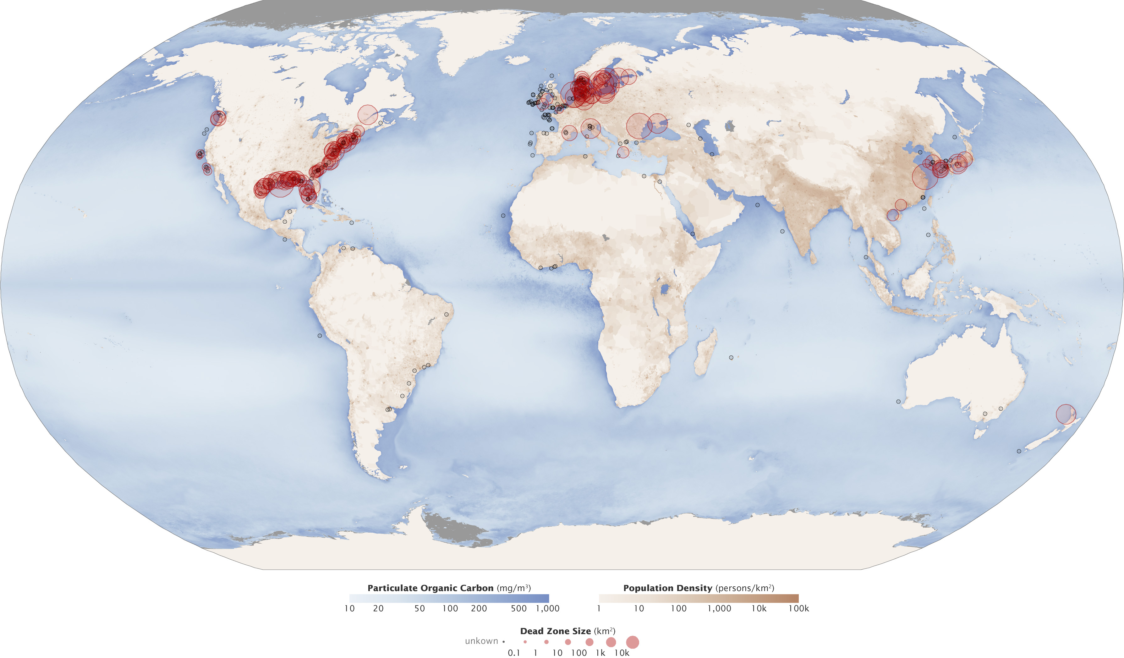 Red circles on this map show the location and size of many of our planet’s dead zones. Black dots show where dead zones have been observed, but their size is unknown. It’s no coincidence that dead zones occur downriver of places where human population density is high (darkest brown). Darker blues in this image show higher concentrations of particulate organic matter, an indication of the overly fertile waters that can culminate in dead zones.